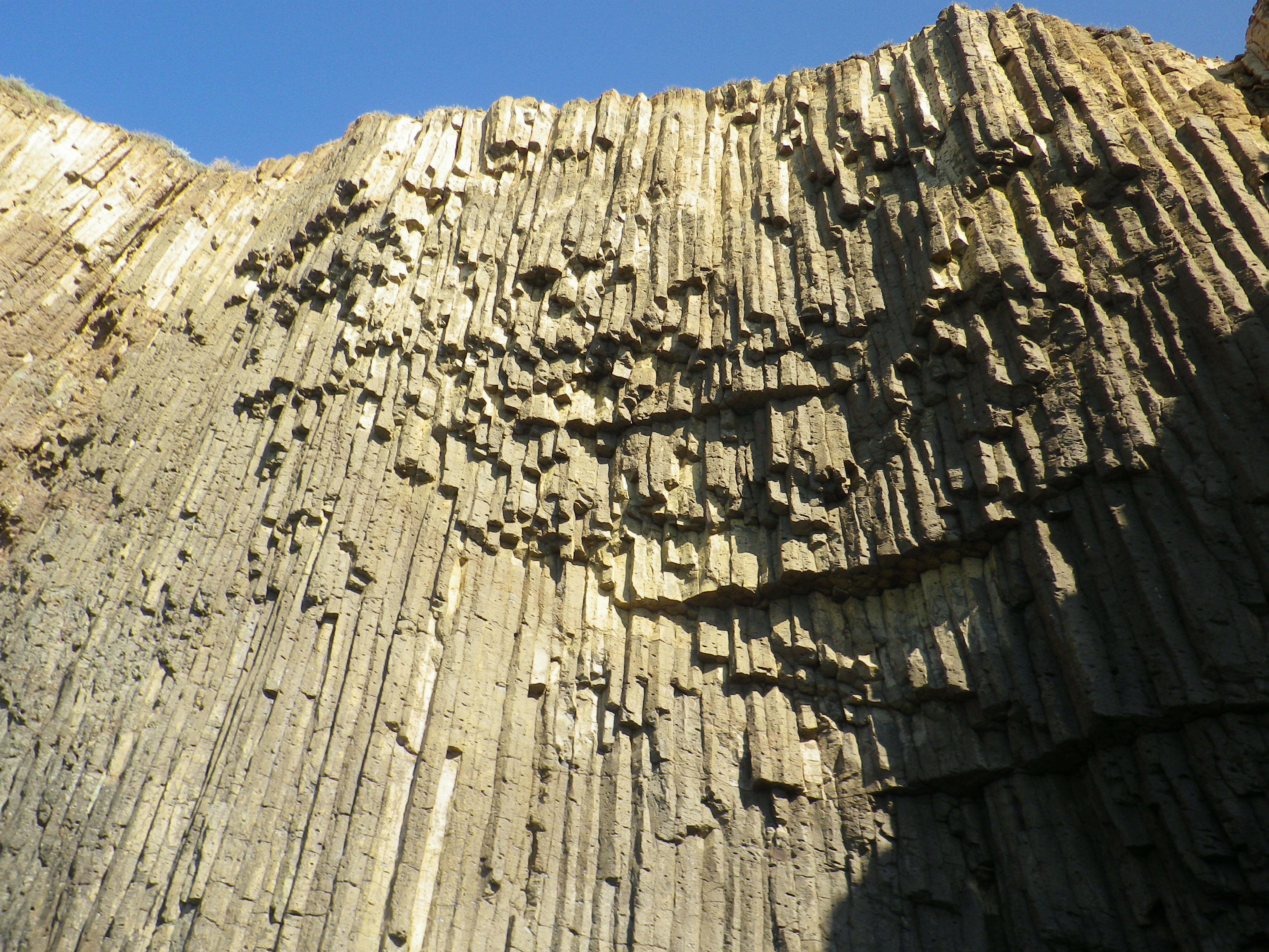 Basaltic columns at Milos island.